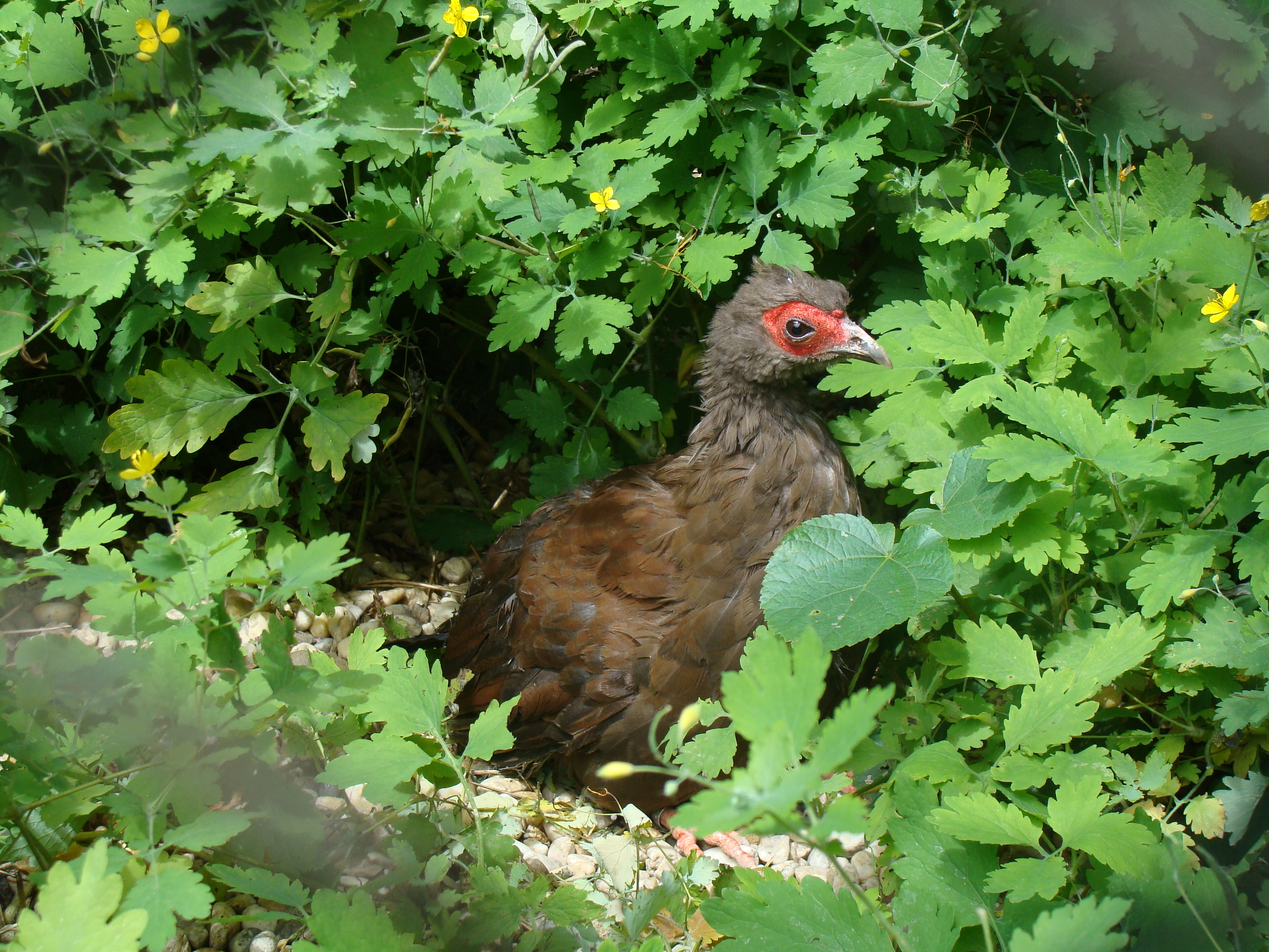 Edwards's Pheasant (Lophura edwardsi), zoo Bojnice, Slovakia.